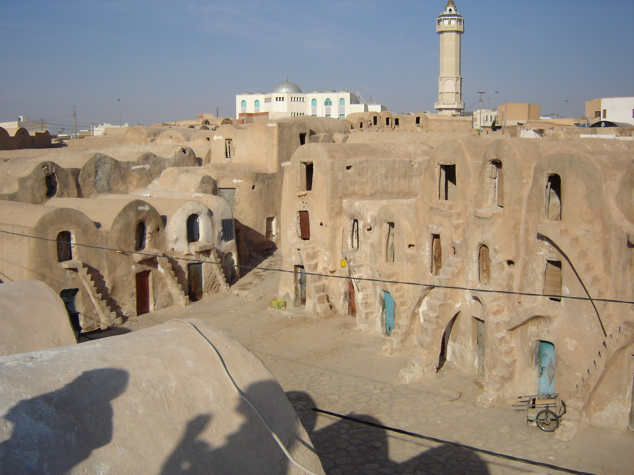 Ghorfa complex in Medenine, Tunisia Source: self-made, October 2004 Author: BishkekRocks